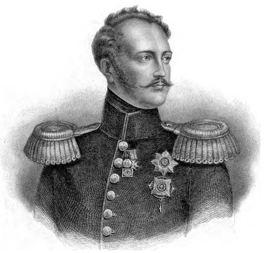 This frontispiece illustration is titled Tsar Nicholas I, engraved on steel by Hopewood